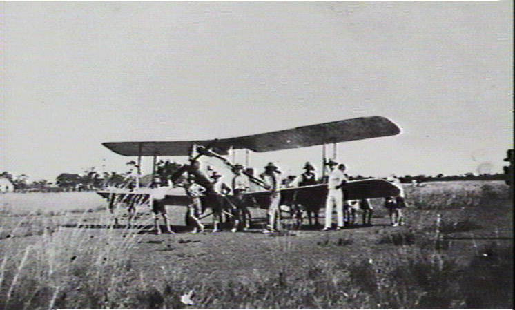 Aeroplane DH60M Moth at Birdum Aerodrome, April 1932. For